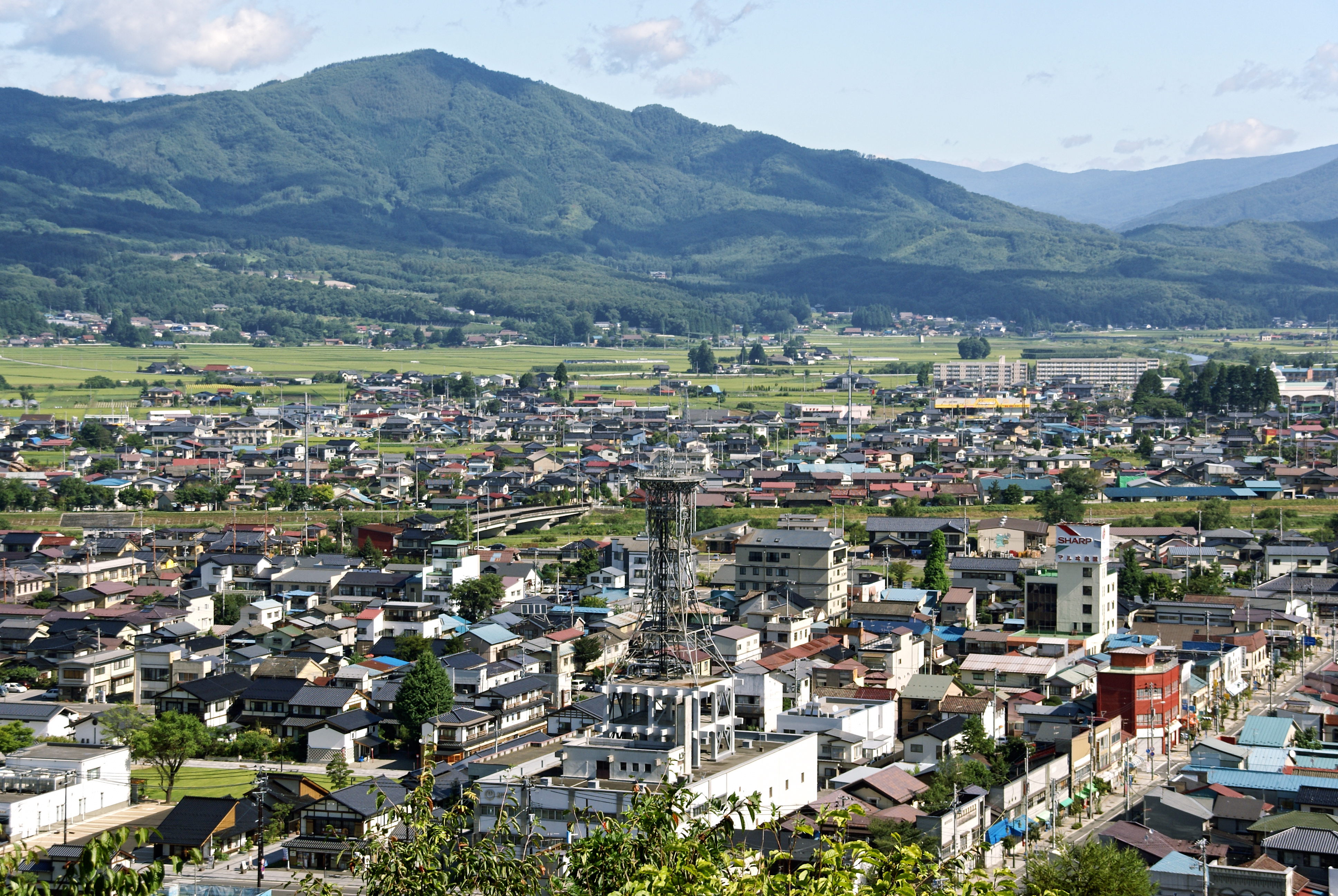 Tono City view from Nabekura Park in Iwate prefecture, Japan